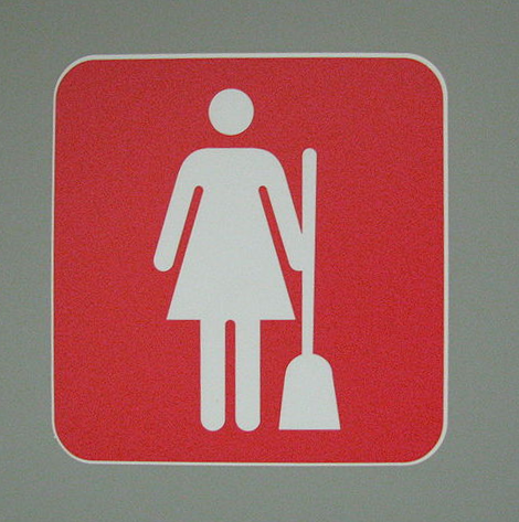 Paris Roissy Airport CDG1 terminal . Logo on closet door . Woman with broom .